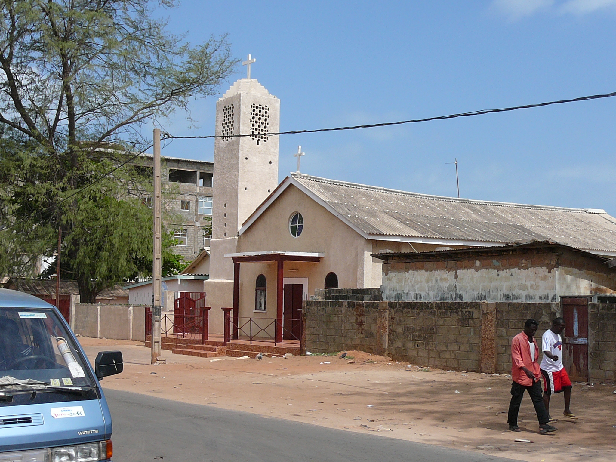 Kirche in Bakau, Gambia